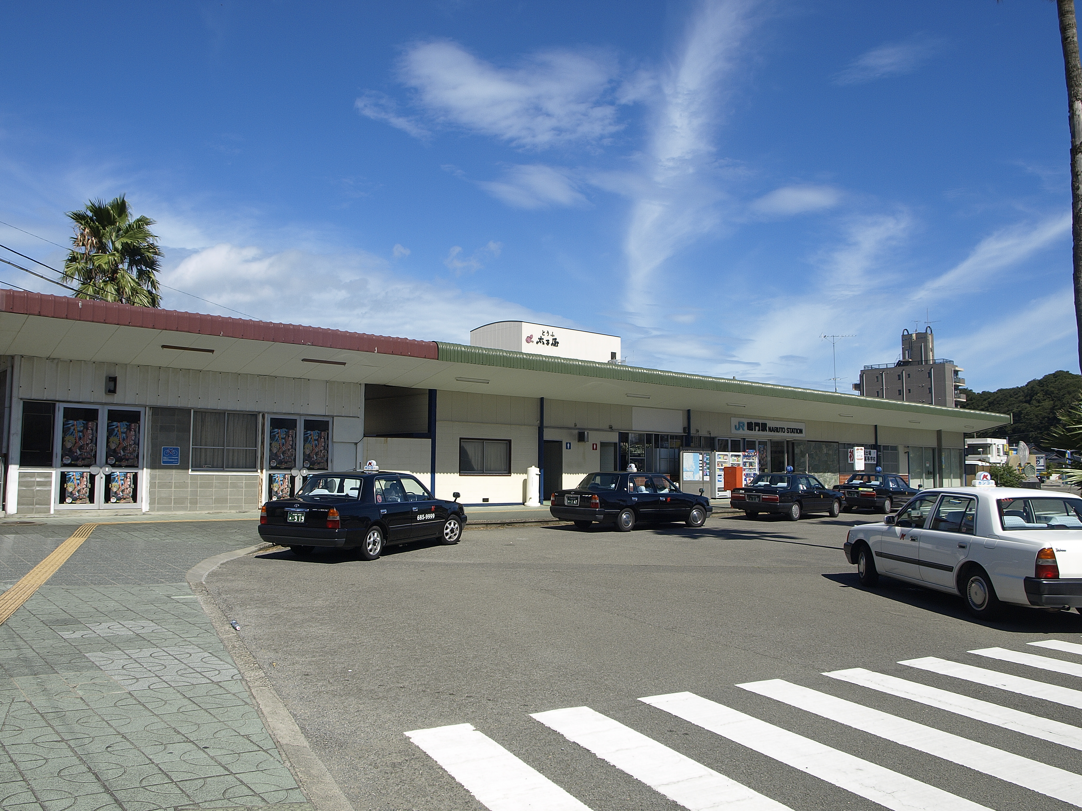 The station building of Naruto railway station in Tokushima, Japan.